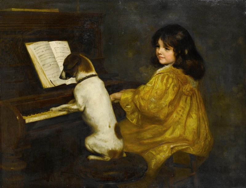 By Mariquita Jenny Moberly (1855-1937), oil on canvas - 76.5 x 101.5 cm